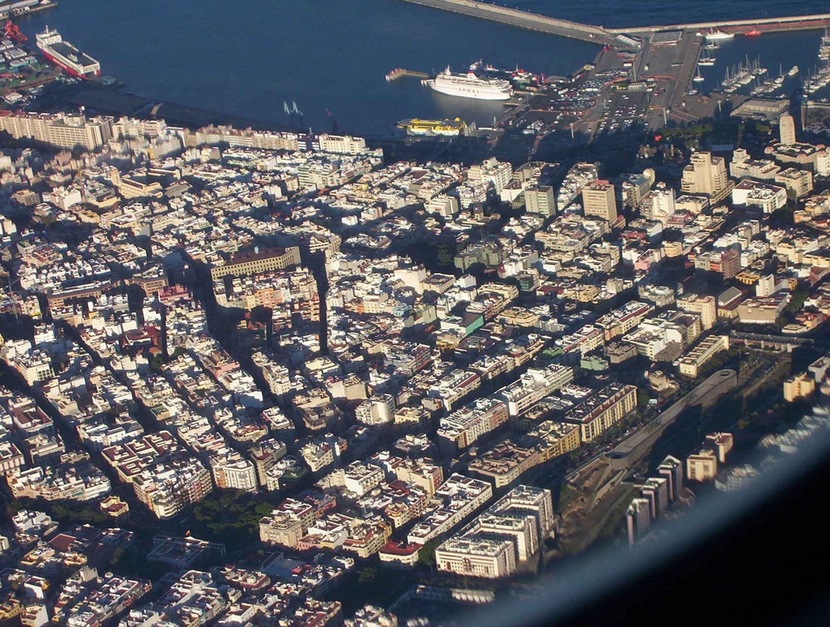 Own picture. No rights reserved.